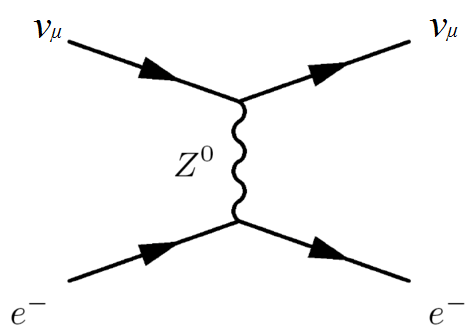 Example of leptonic event, neutral current/exchange of a Z boson